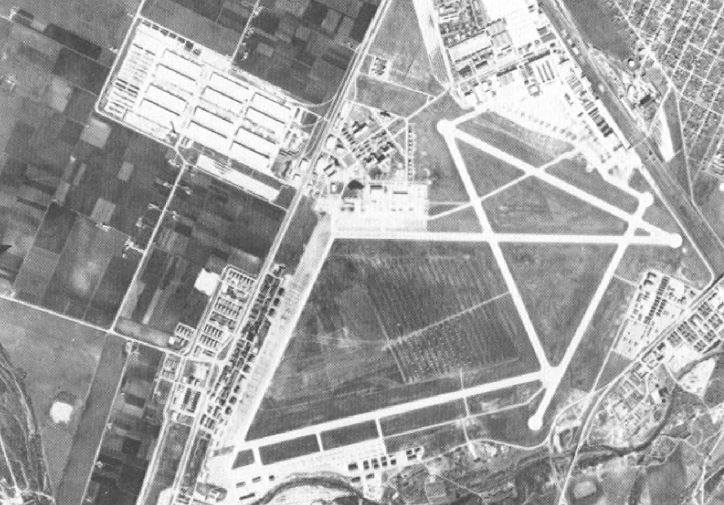 Kelly Field - Texas - 1946